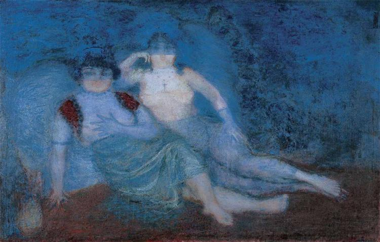 "La Cueva"